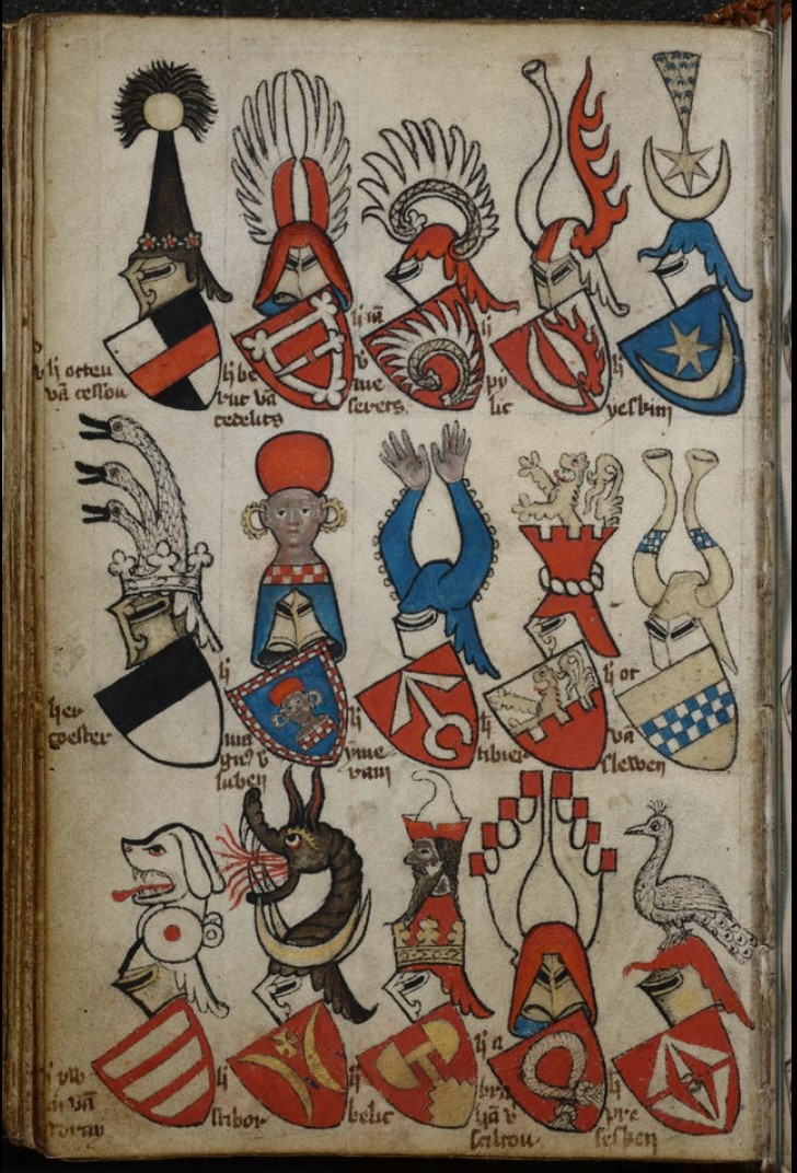 Page out of the Armorial Gelre. Folio 53v de l'Armorial de Gelre.